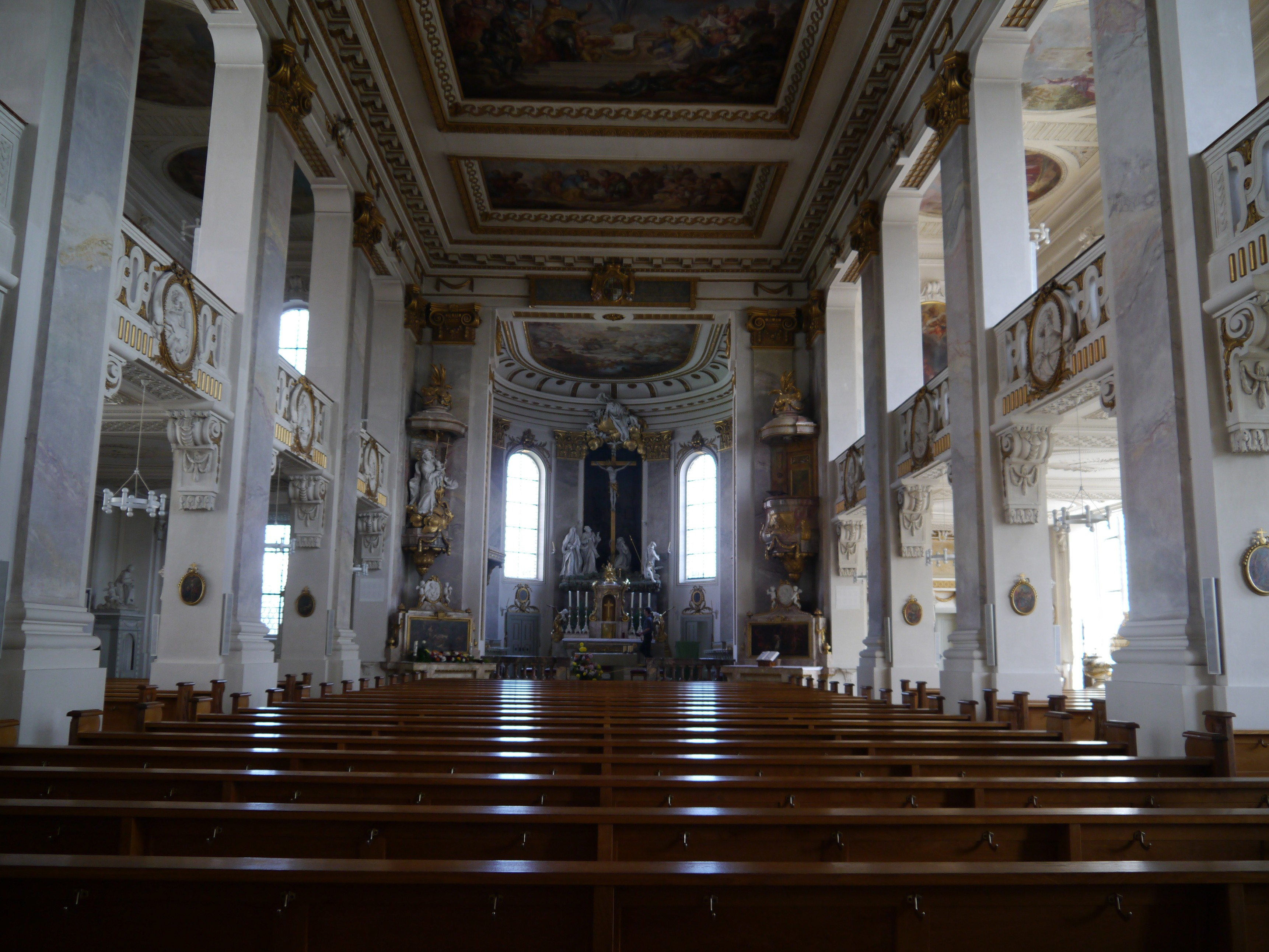 Nave of Buchau Monastery Church, Bad Buchau